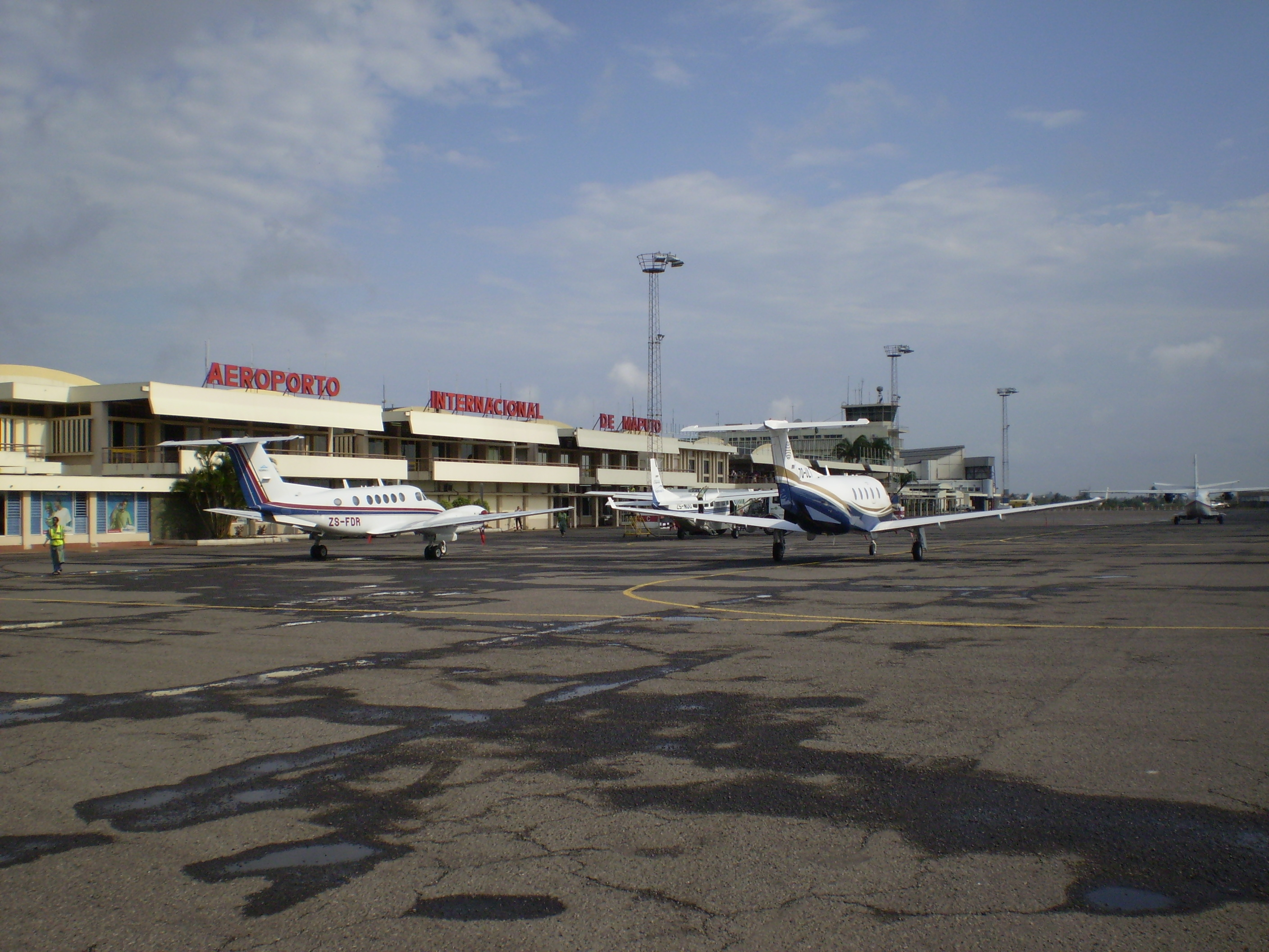 Maputo International Airport in Maputo, Mozambique